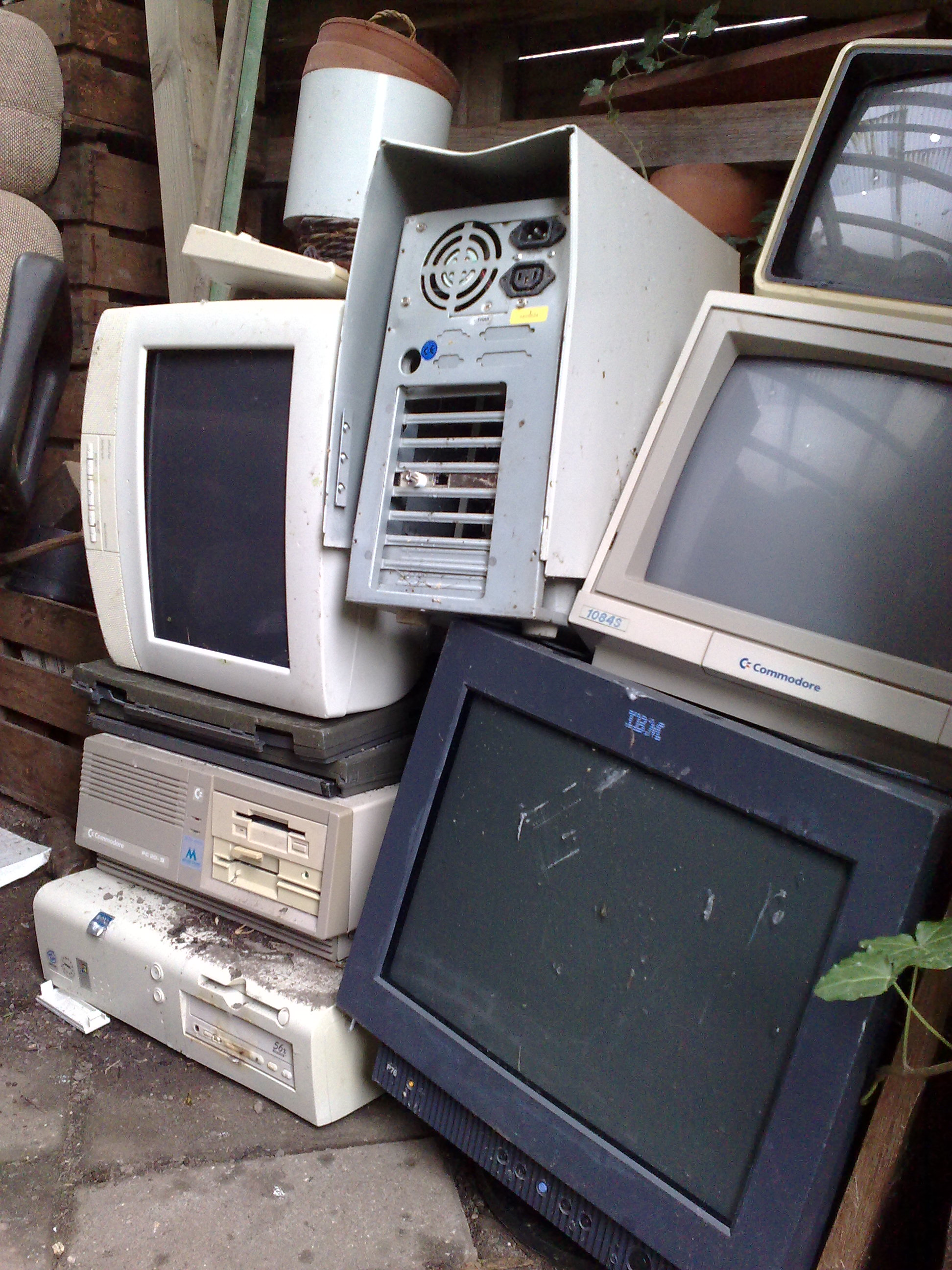 Pile of e-Waste / Electronic waste: A few older and defective computers, CRT monitors and a television.